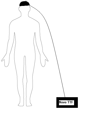 The Novo-TTF portable system is a good treatment for glioblastoma multiforme. It is based on the application of an alternating electric current to prevent the division of tumor cells in the brain.